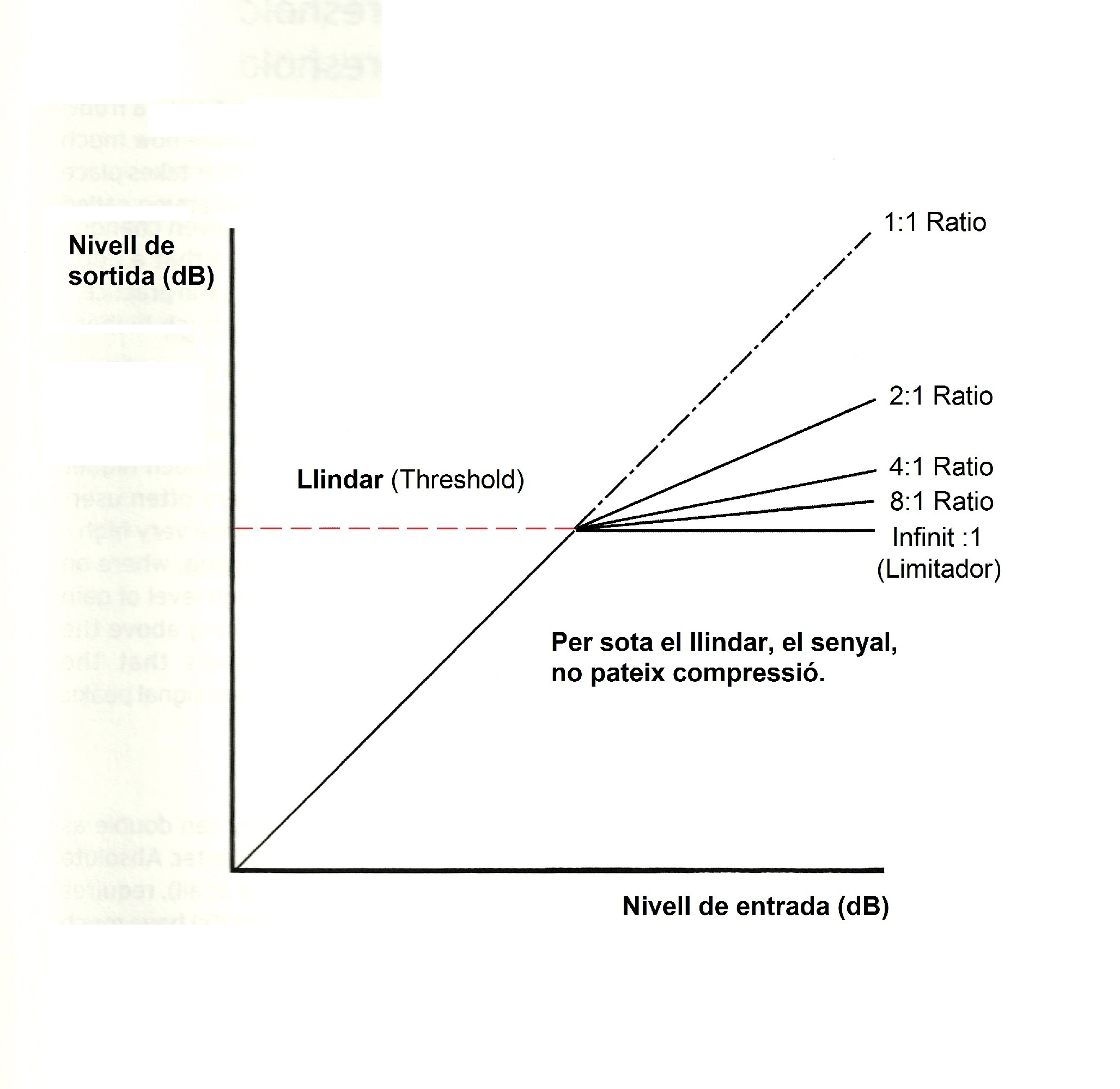 Ratios